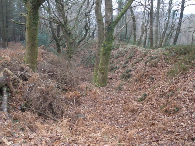 Defensive ditch, Wooston Castle Part of an iron-age fort, sited high above the River Teign.